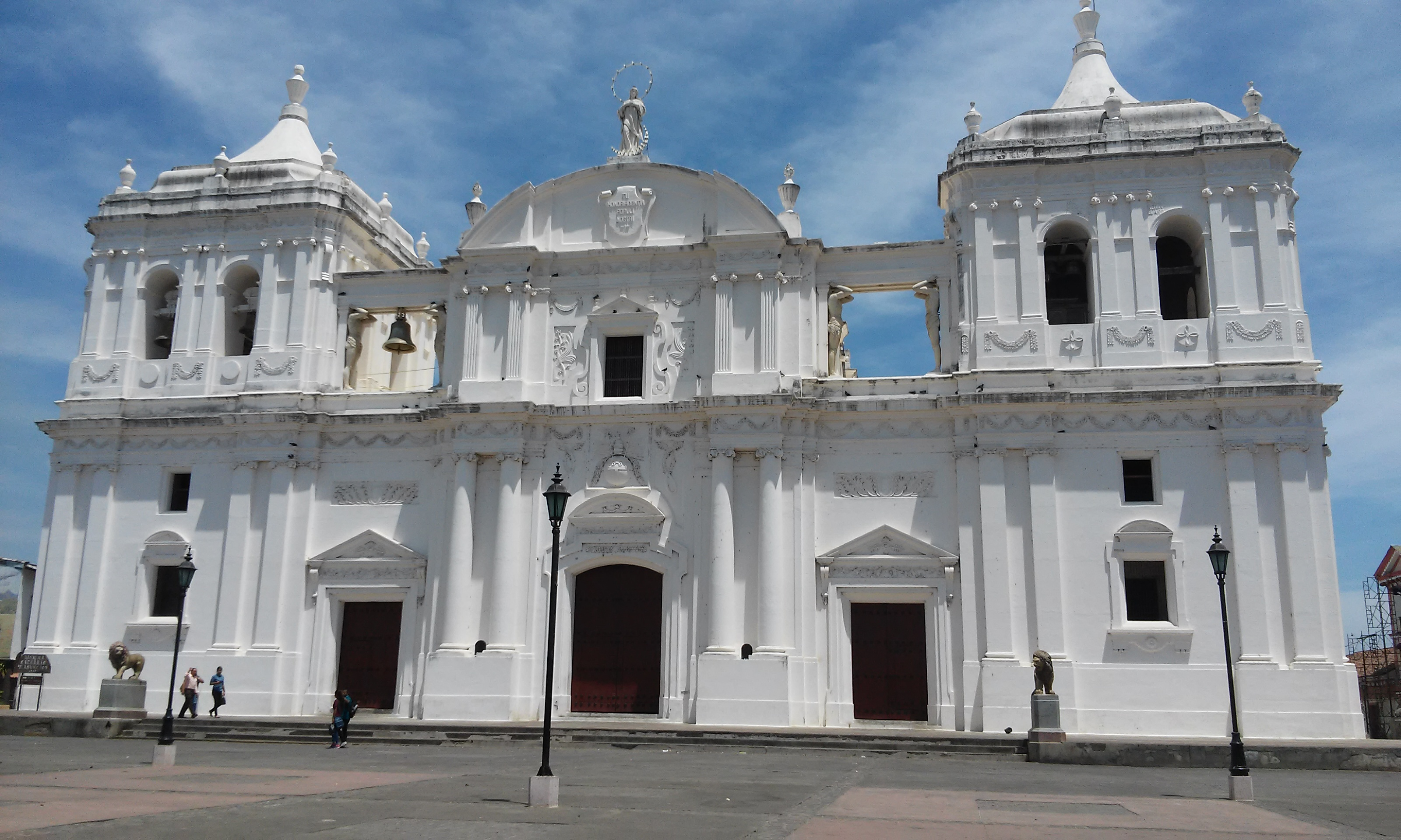 The Leon Cathedral on March 2018